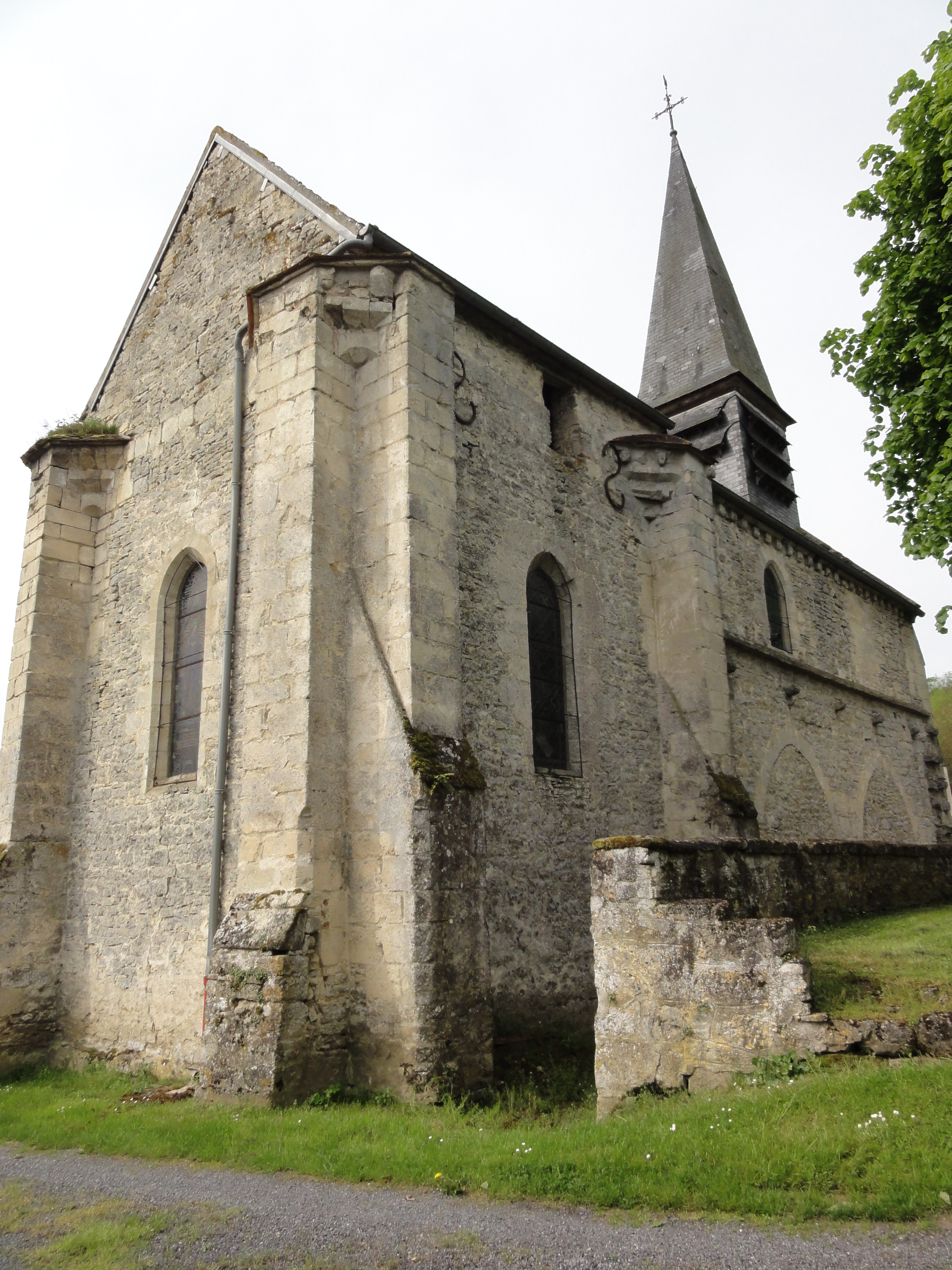 Orgeval (Aisne) église Notre-Dame